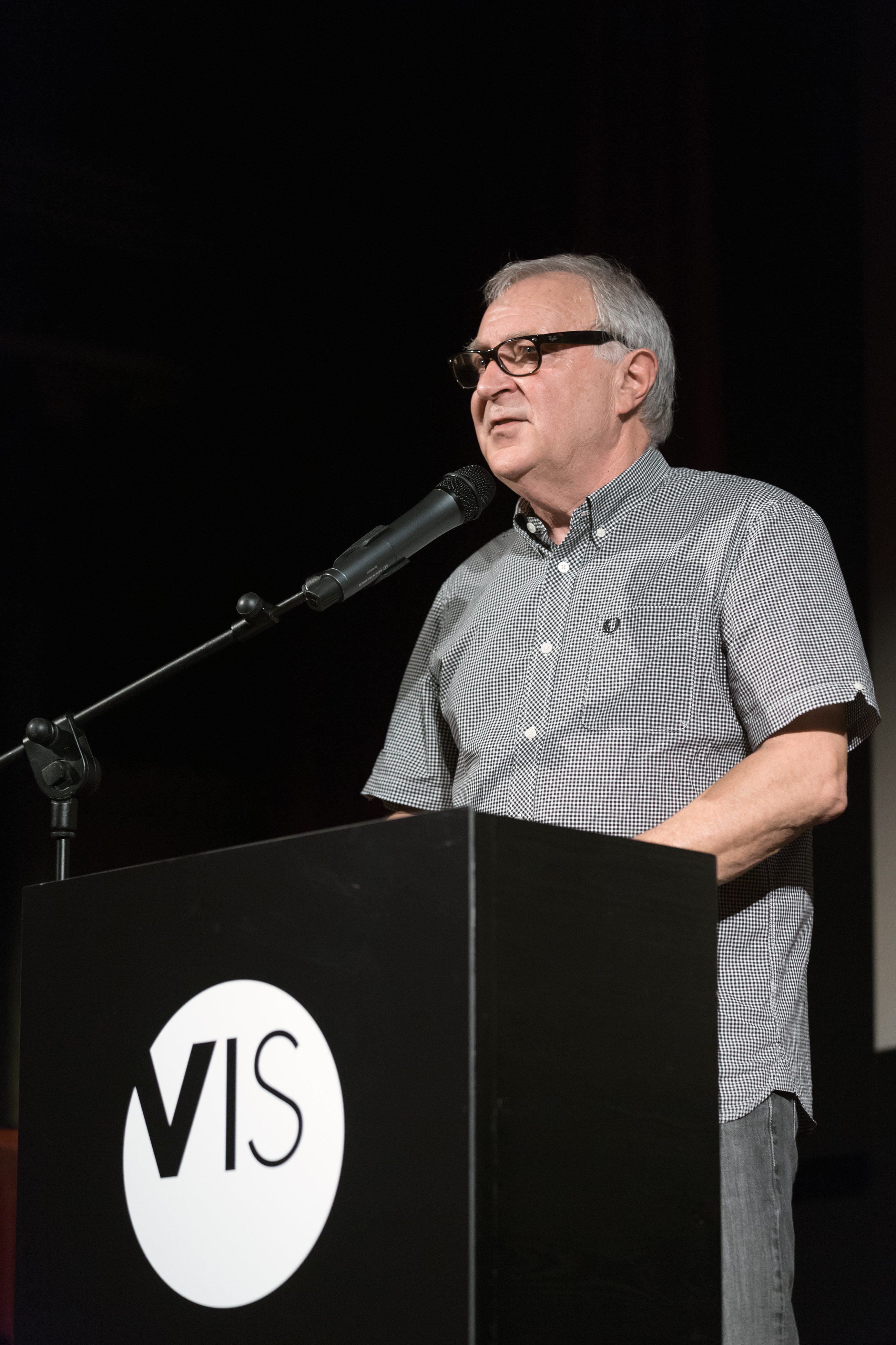 Presenter Stuart Freeman at the award ceremony of the Vienna Independent Shorts 2016 (Metro-Kino, Vienna, Austria).